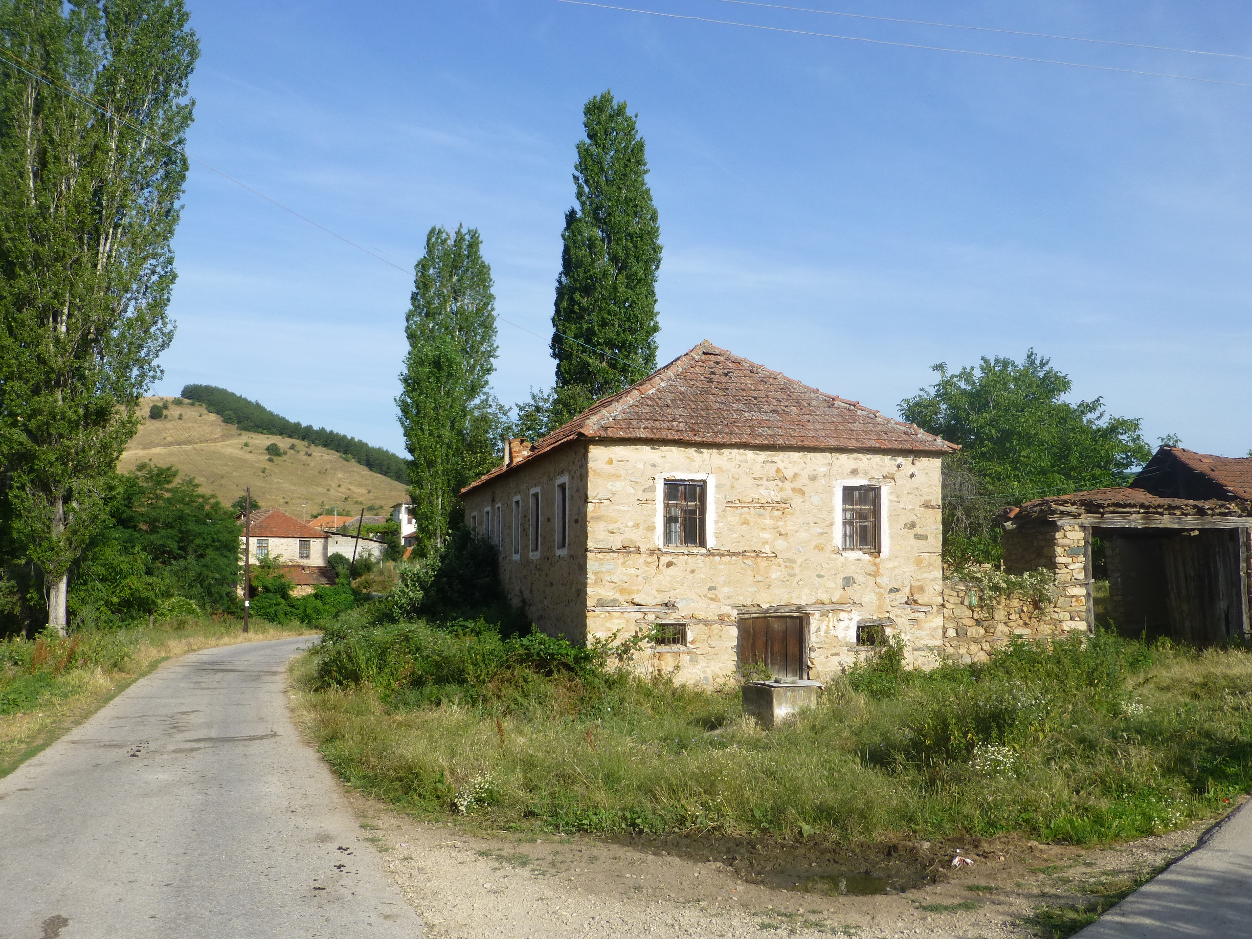 Views from Macedonian Hwy P1305, around Lopatica (between Demir Hisar and Bitola)